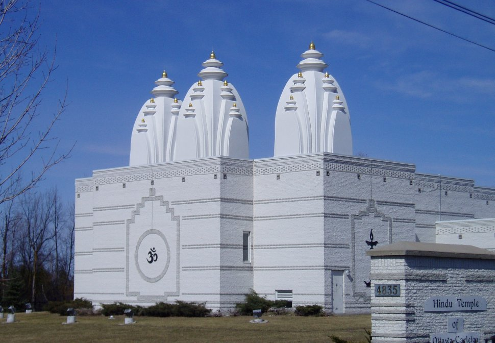 The Hindu Temple of Ottawa-Carleton, taken by SimonP